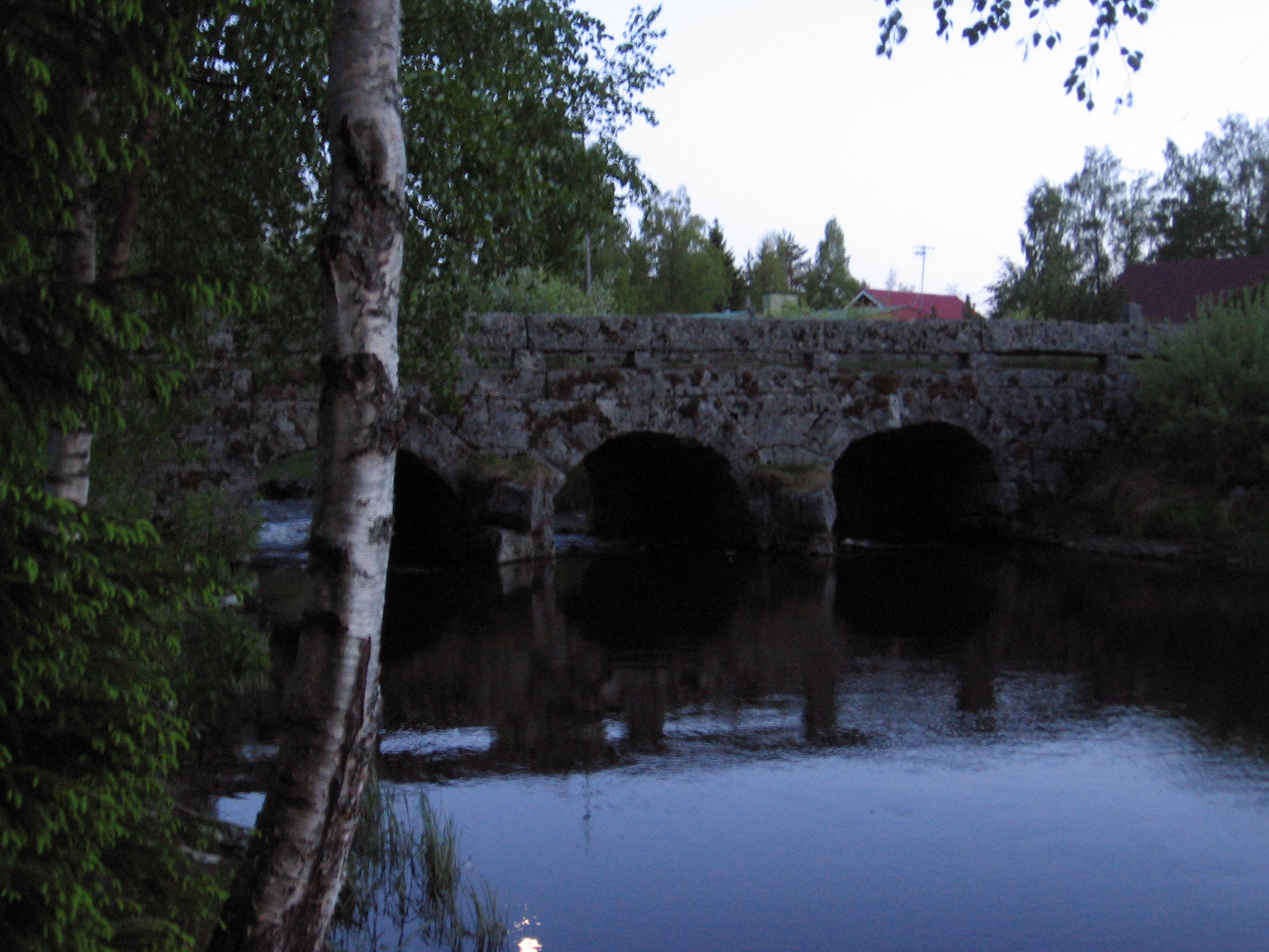 Stone bridge over Kiikoisjoki in Village of Putaja, Suodenniemi, Finland. Picture was taken by me, Hamartolos.